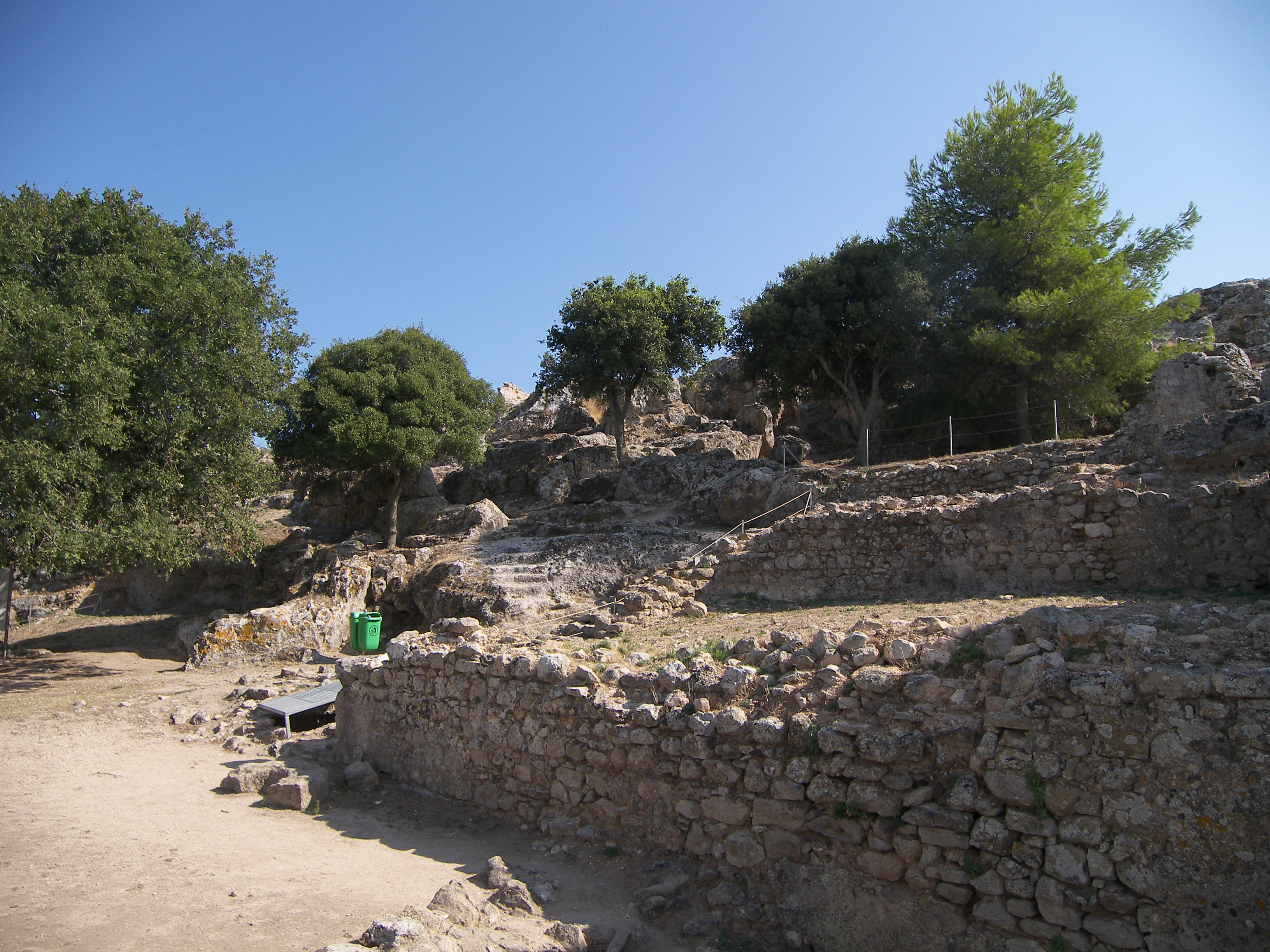 Please see filename